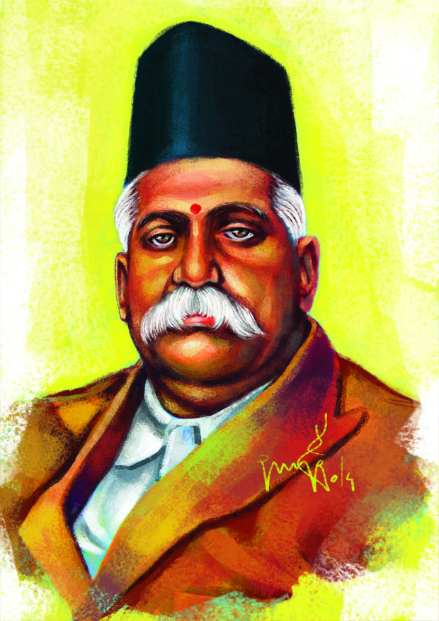 Keshav Baliram Hedgewar (1 April 1889 – 21 June 1940) was the founding Sarsanghachalak (supreme leader) of the Rashtriya Swayamsevak Sangh (RSS). Hedgewar founded the RSS in Nagpur in 1925, with the intention of promoting the concept of a united India deeply rooted in indigenous ideology.[1] He drew upon influences from social and spiritual Indians such as Swami Vivekananda, Vinayak Damodar Savarkar and Aurobindo to develop the core philosophy of the RSS.